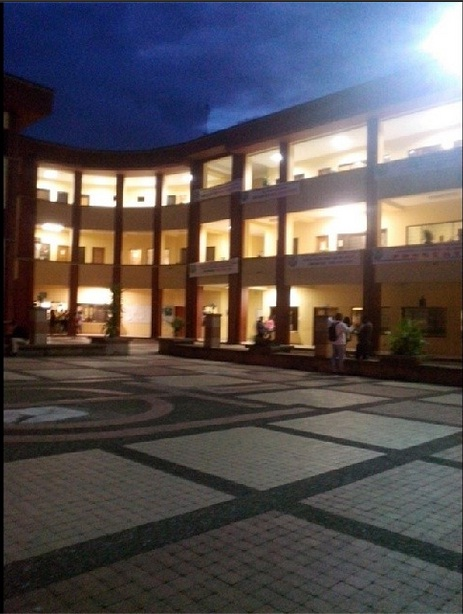 Universidad del Chocó Diego Luis Cordoba